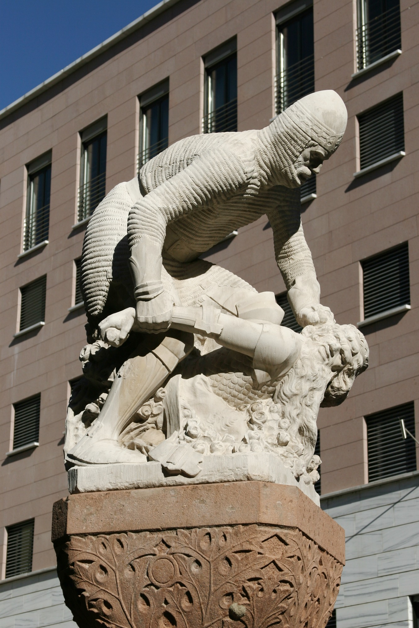 Dietrich of Bern aka Category:Theodoric the Great fighting with dwarf Laurin, sculpture on a fountain in Bozen/Bolzano